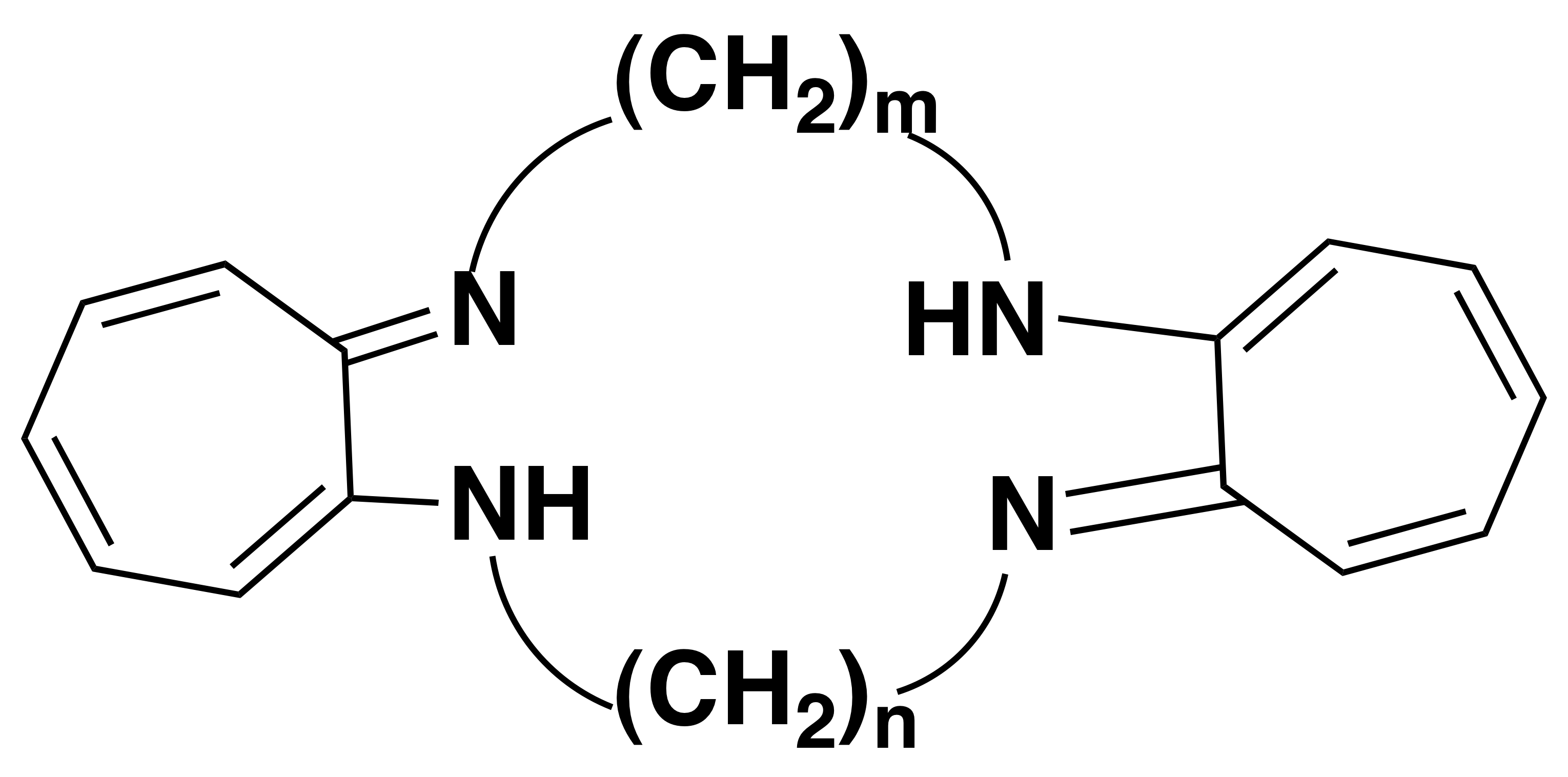 TC ligand